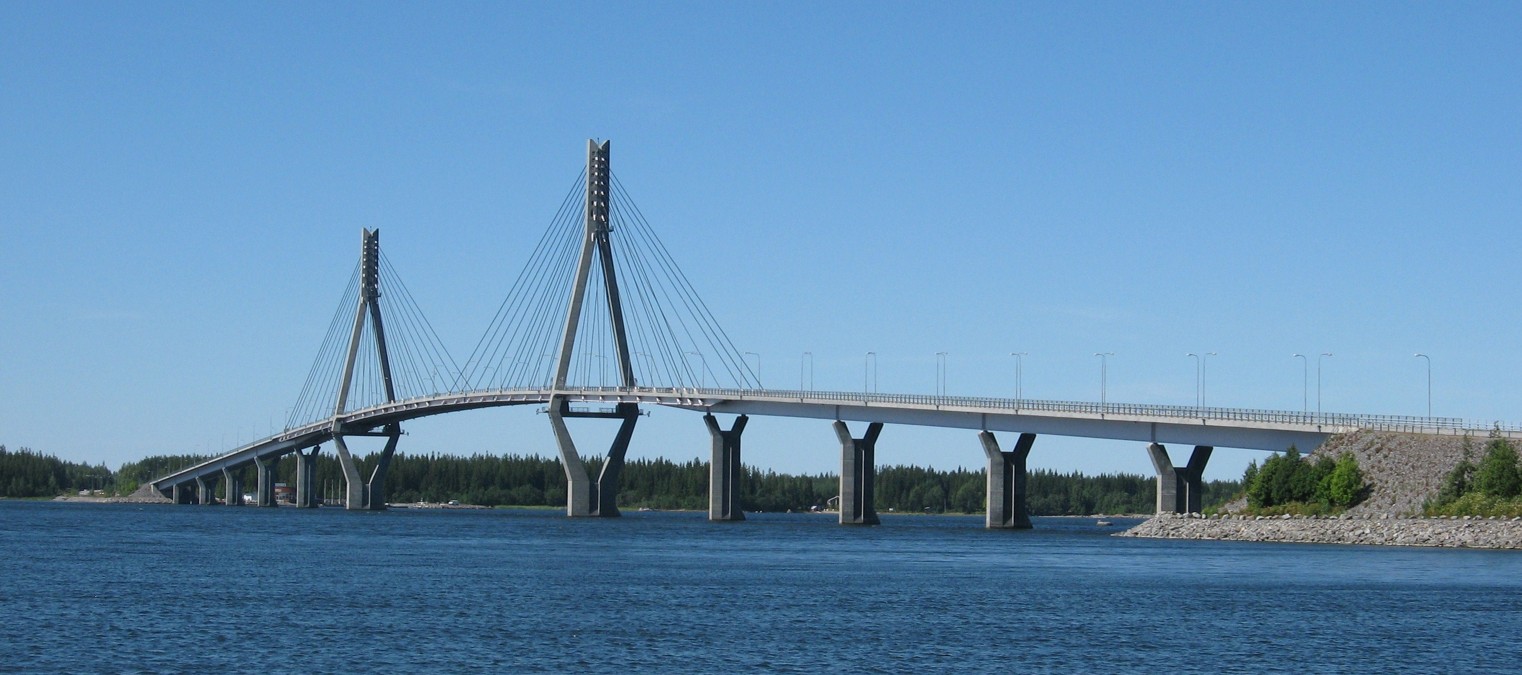 The Replot Bridge in Korsholm, Finland. View from the Fjärdskäret skerry.